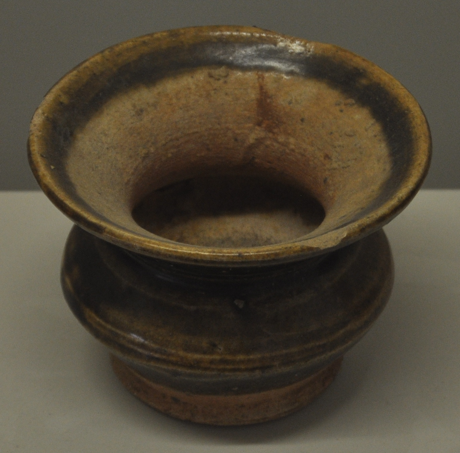 13-14c. Brown glazed ceramic in room 6 “Champa Culture (2-17c) in the Museum of Vietnamese History